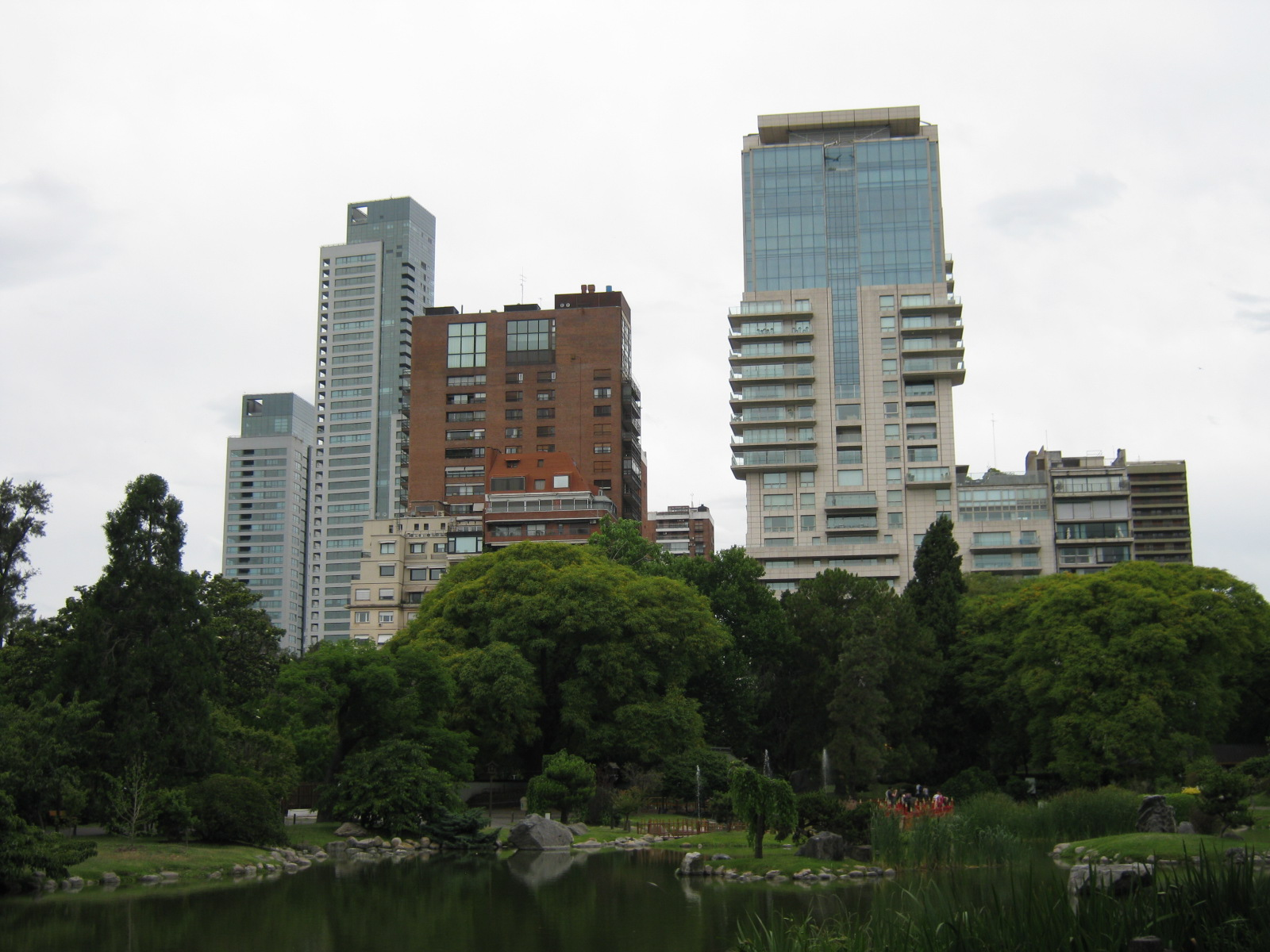 Japanese Garden and high rises along Figuerosa Alcorta Avenue (left) and Casares Avenue, Buenos Aires.